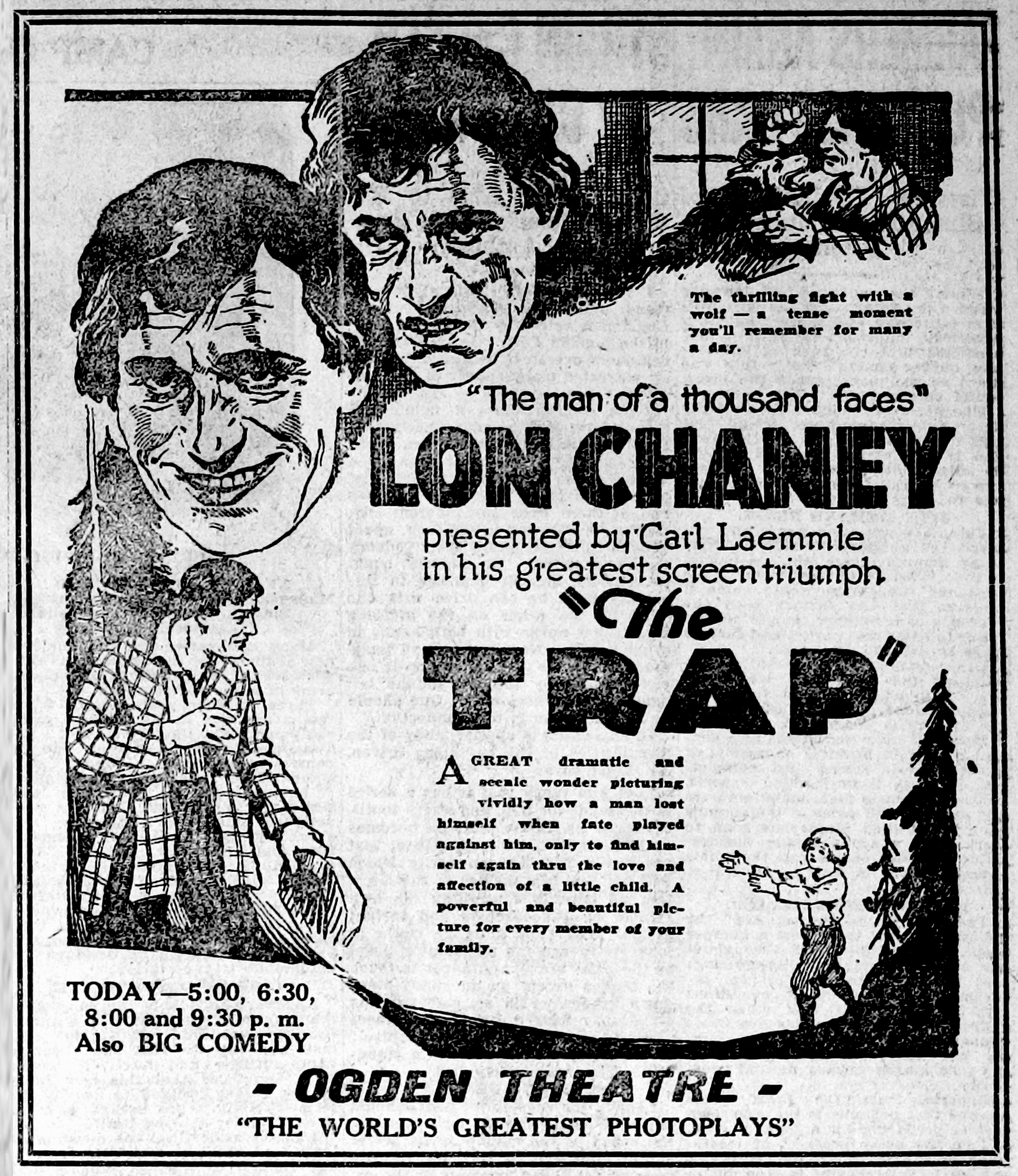 The Trap (1922) is a American silent film directed by Robert Thornby, released by Universal Pictures. This is a newspaper advertisement.